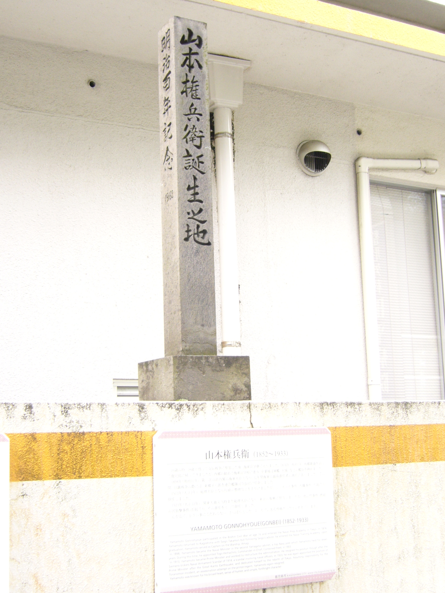 Birhplace monument of Gonbei Yamamoto(山本権兵衛)